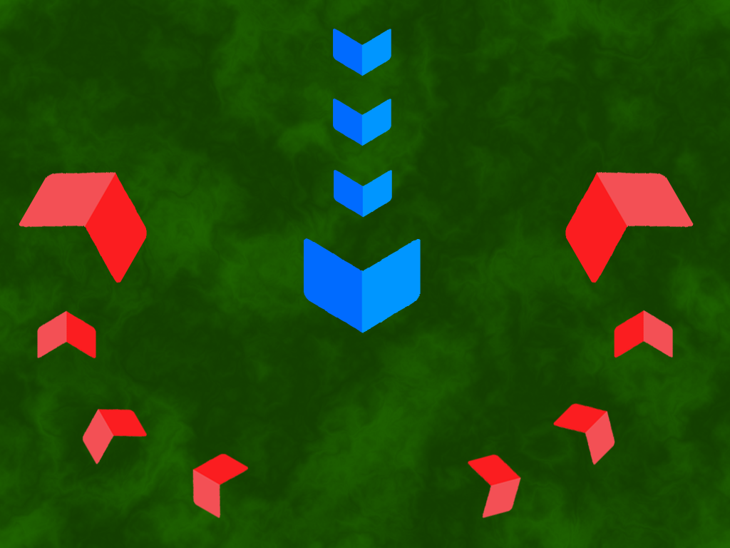 Diagram of a pincer movement. Original drawing by Vera_Cruz; current version by Ourai.